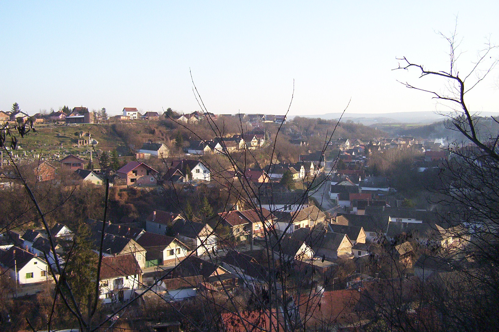 View of Ilok from city's fortress (Dec 27, 2006)